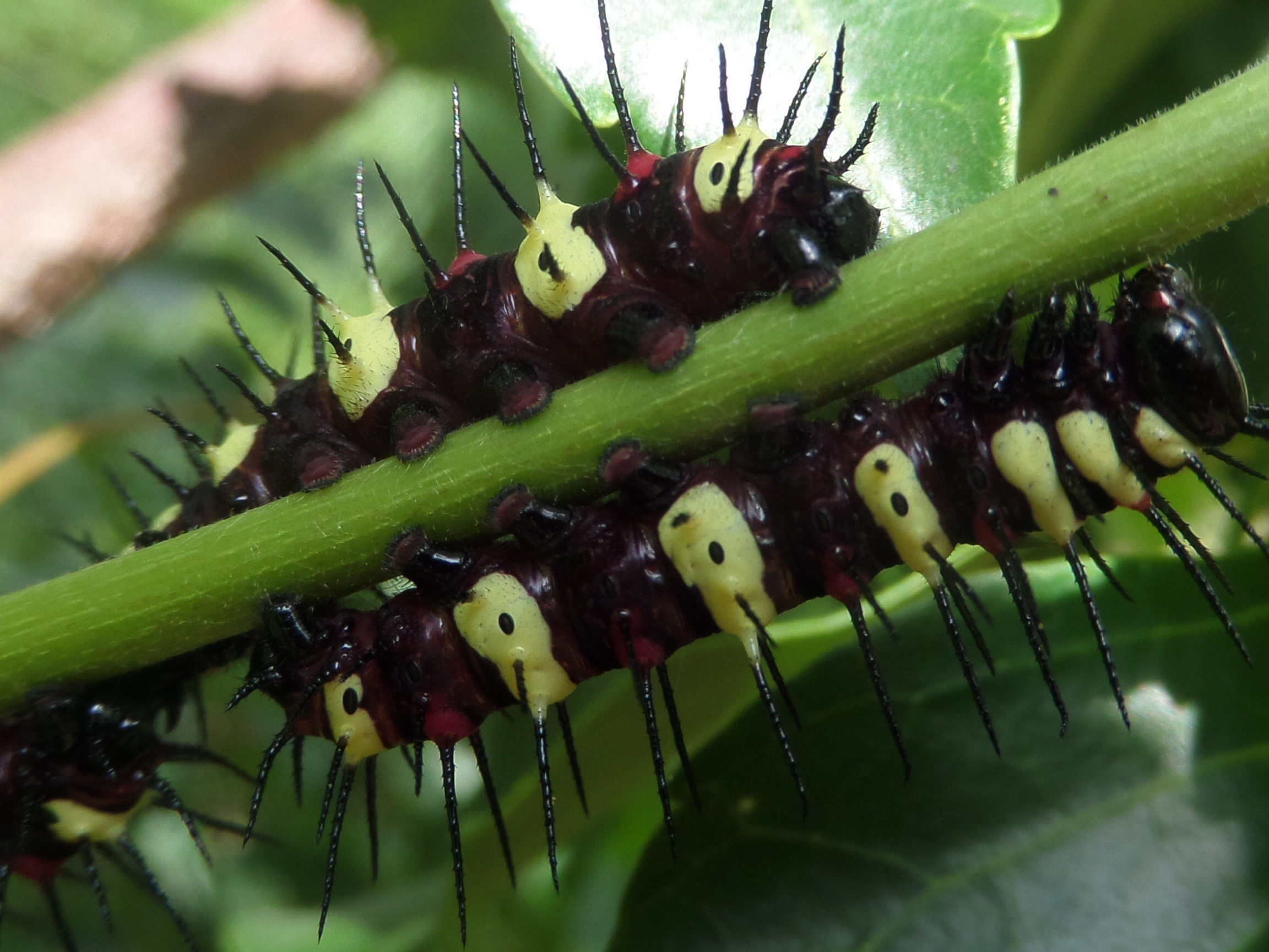 purple and yellow bands,with dorsal spines